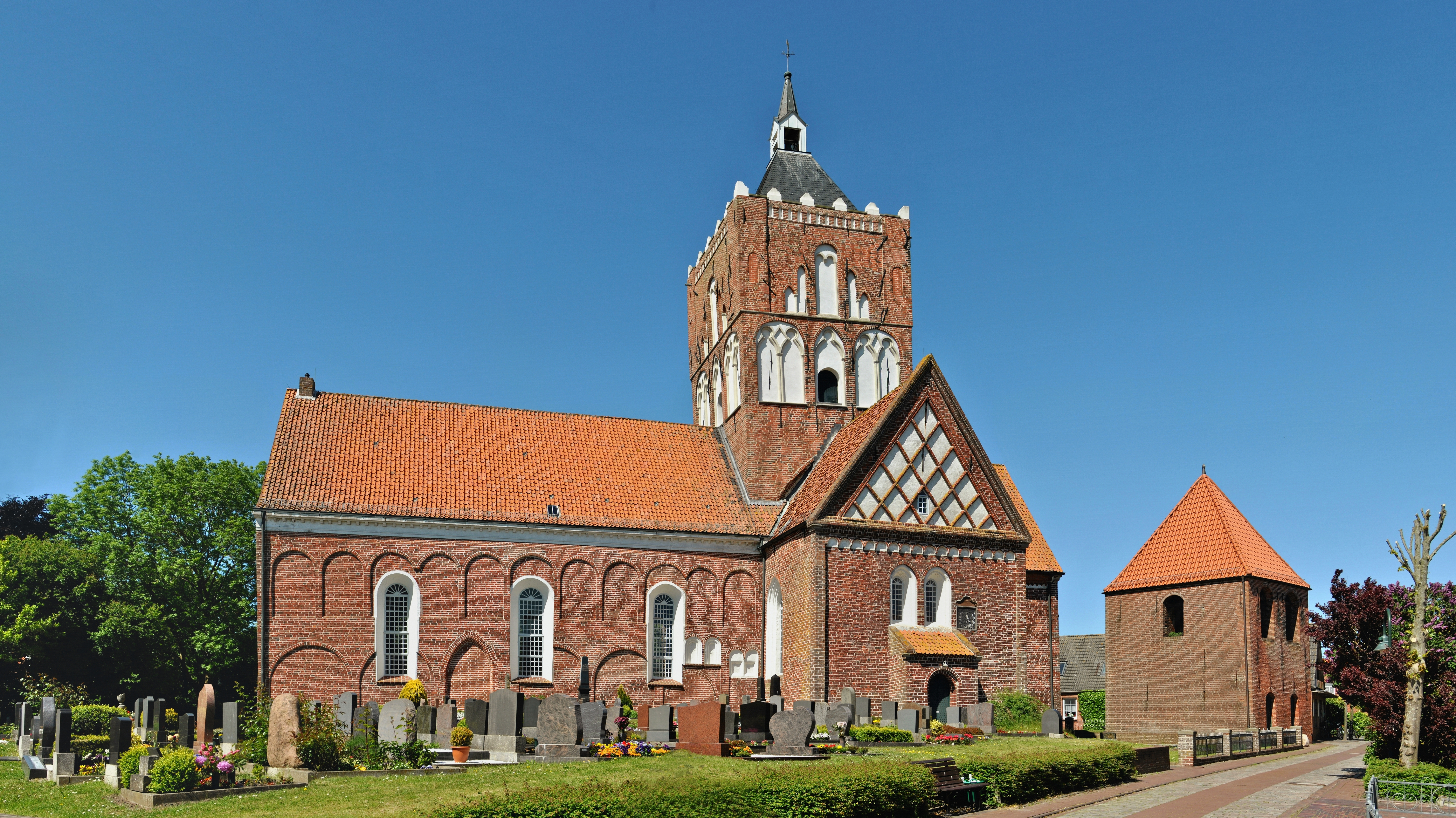 South side of the four naved church named St. Stephanus in Pilsum, Krummhörn (Aurich district, East Frisia, Lower Saxony, Germany), with the Pilsum cemetery in front of it, photographed in a high-resolution panorama.